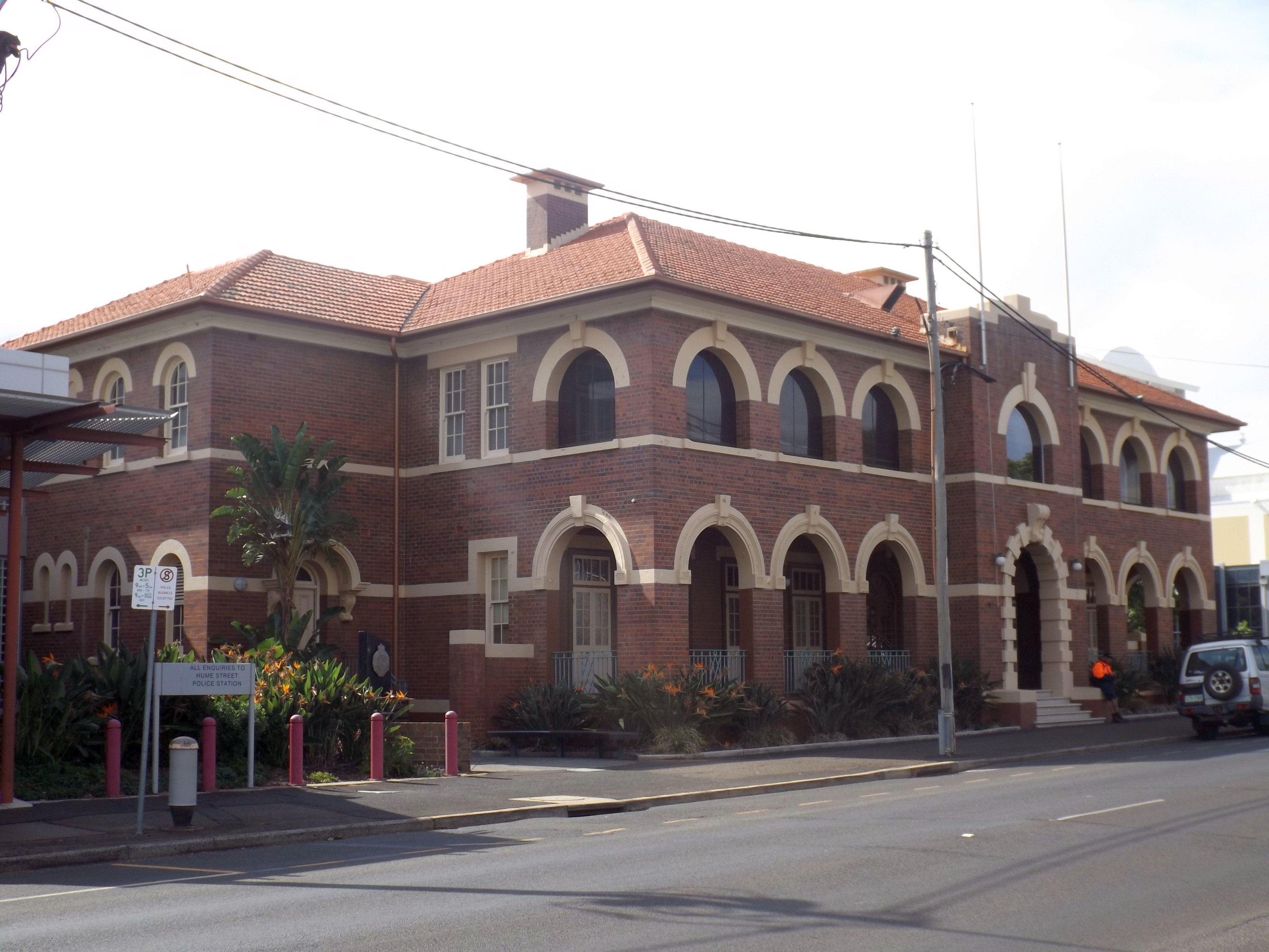 Photo of Toowoomba Police Station Complex in Neil Street in Toowoomba City, Queensland, Australia.